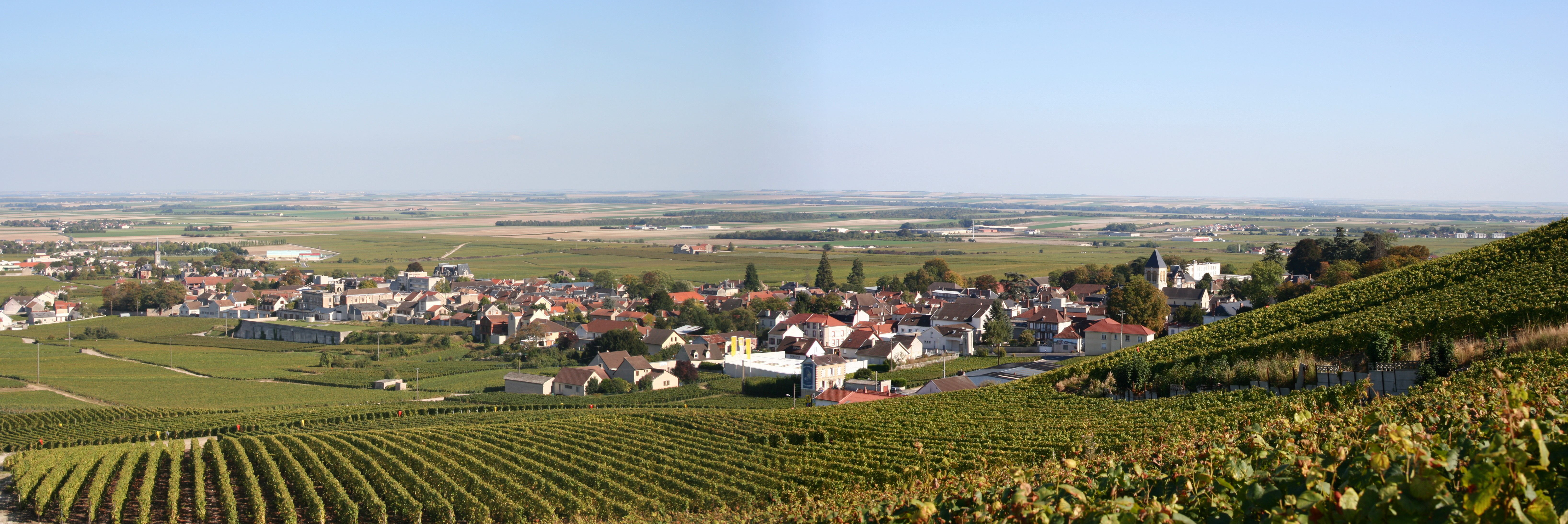 Avize - Marne - France panoramic view